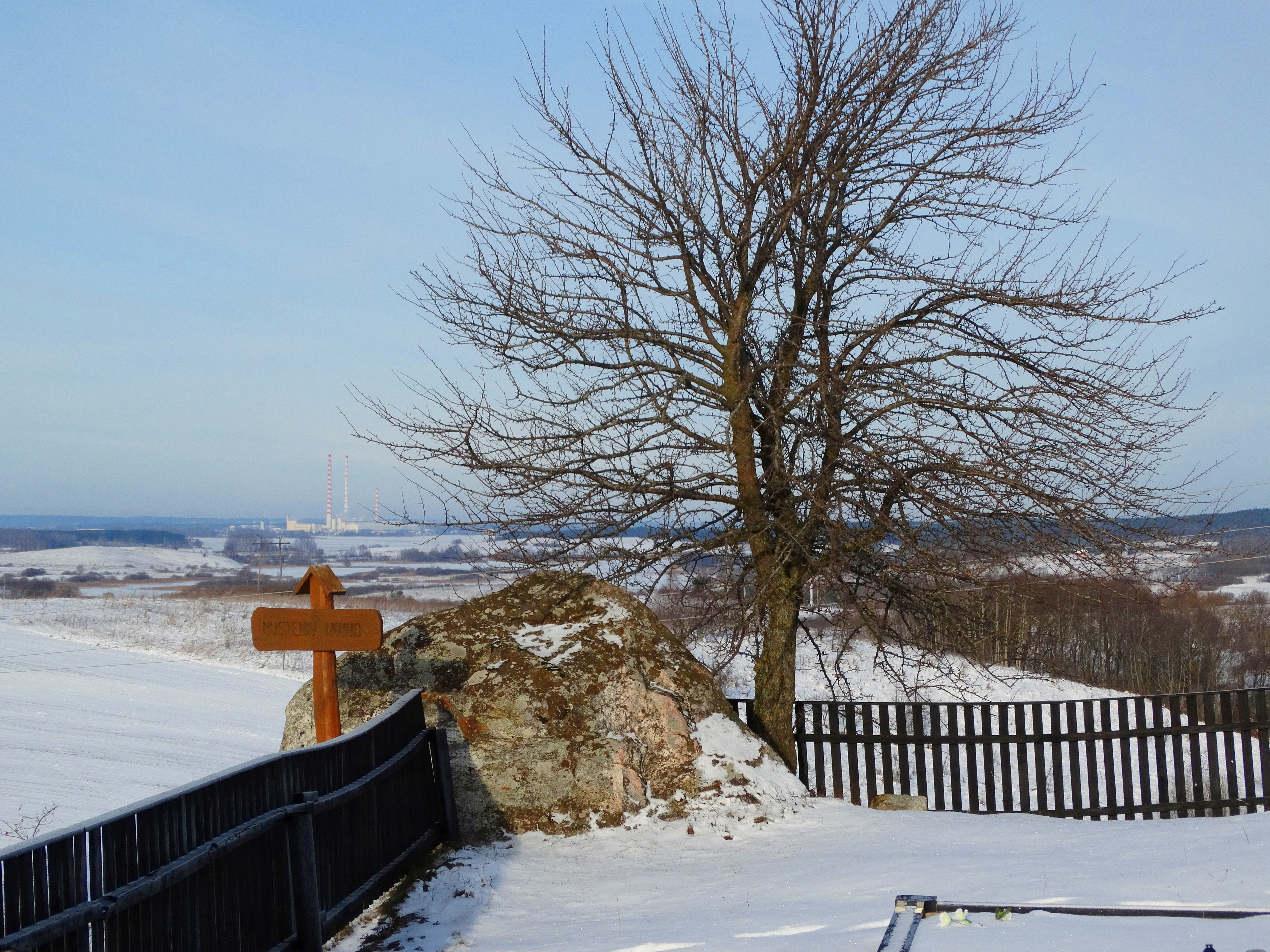 Stone, Musteniai, Elektrėnai Municipality, Lithuania